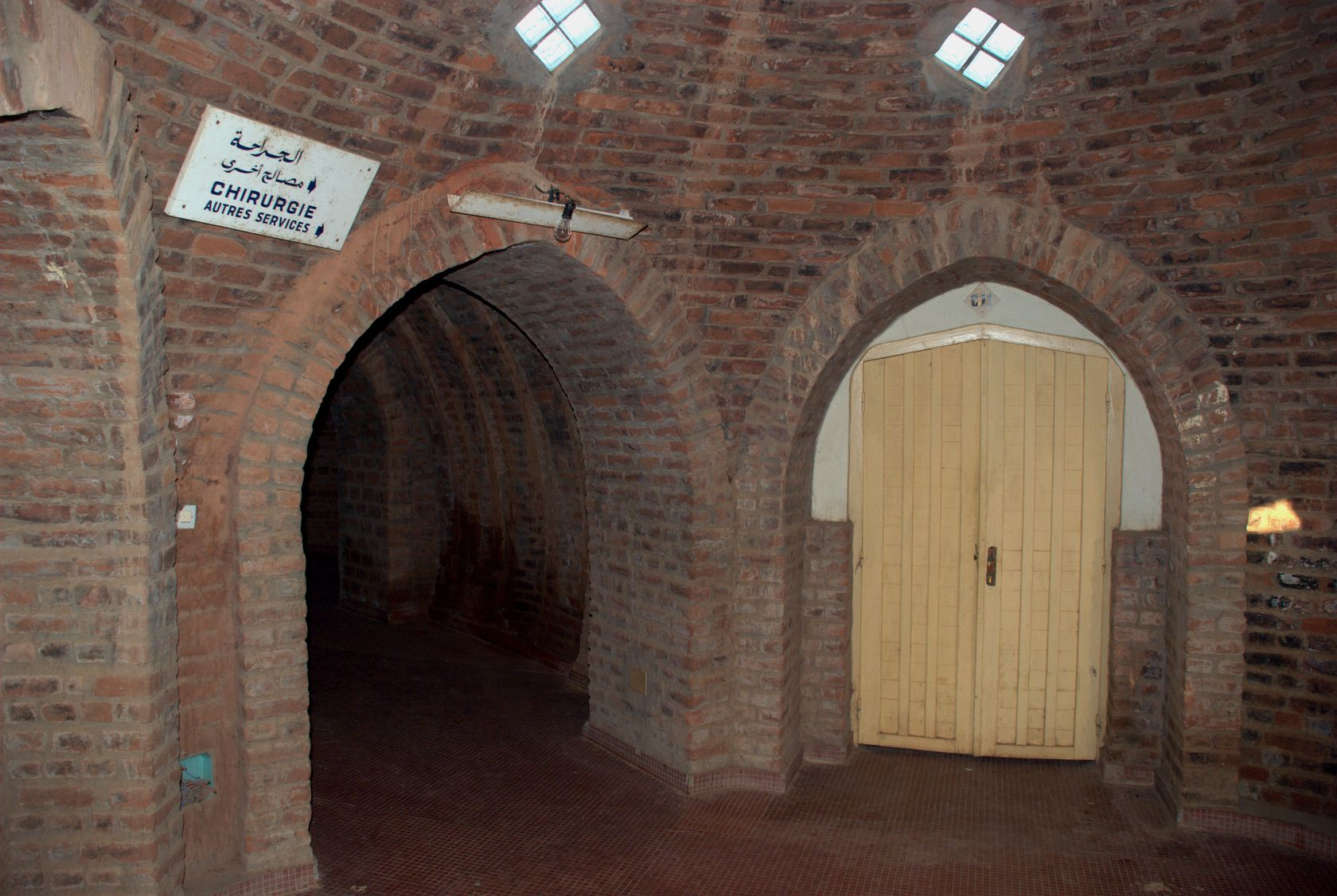 Kaédi Regional Hospital, Kaedi, Mauritania